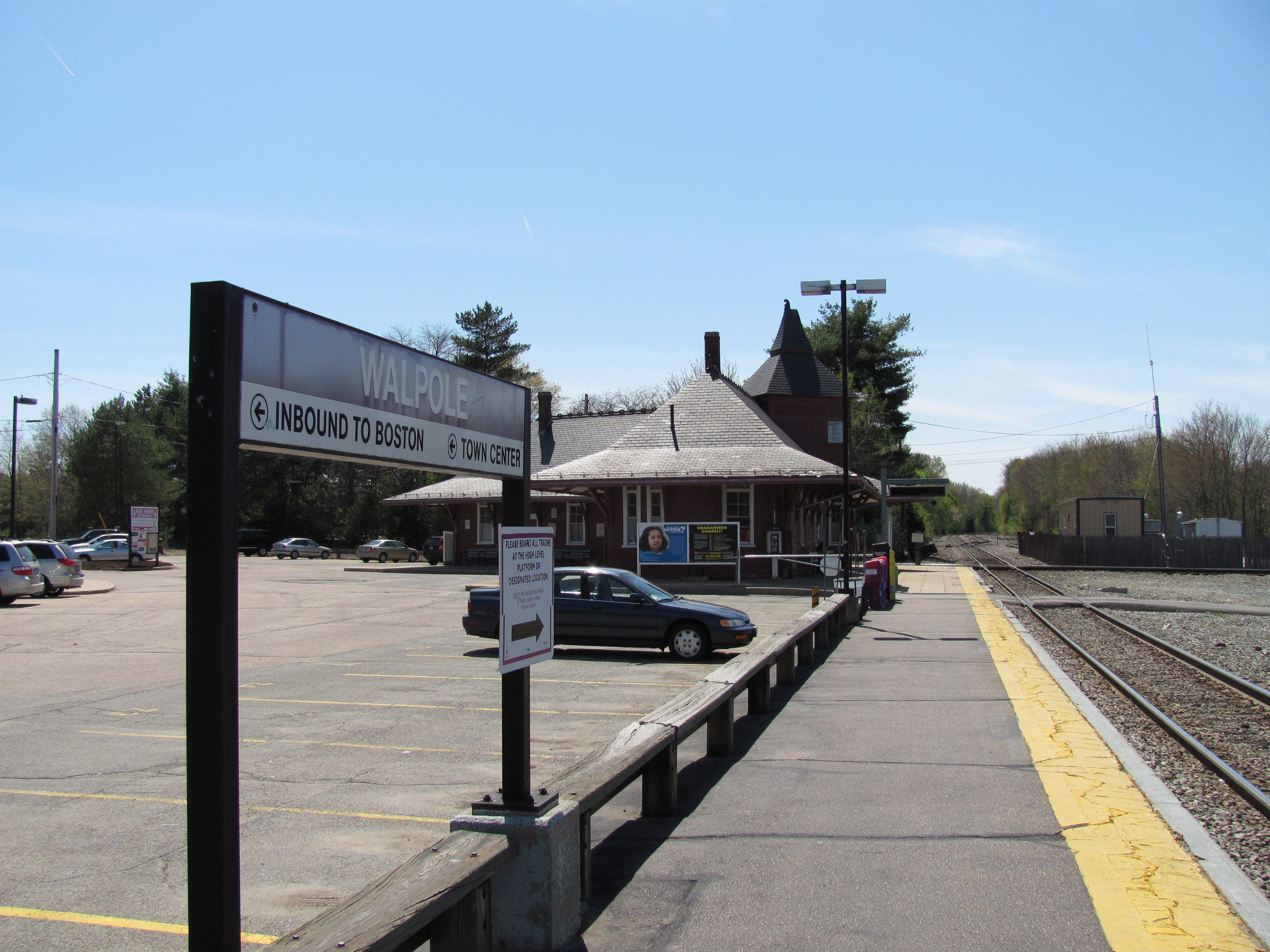 Walpole MBTA Station, Walpole Massachusetts